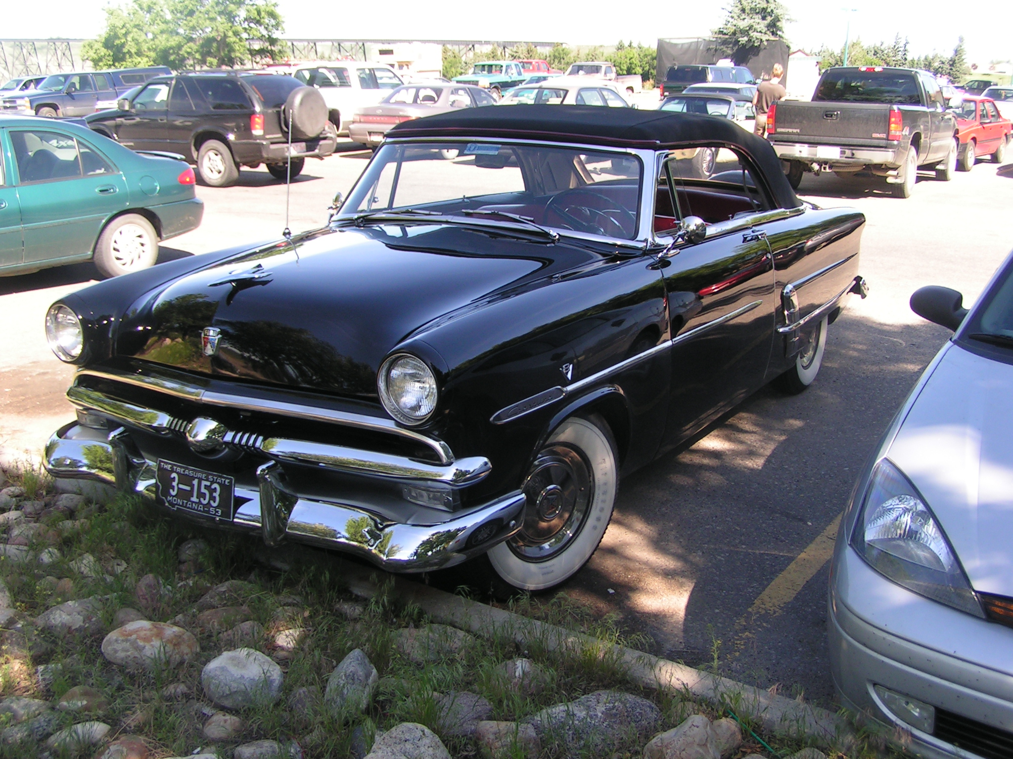 1953 Ford - An older picture spotted outside the Lethbridge Vintage Show in 2005.